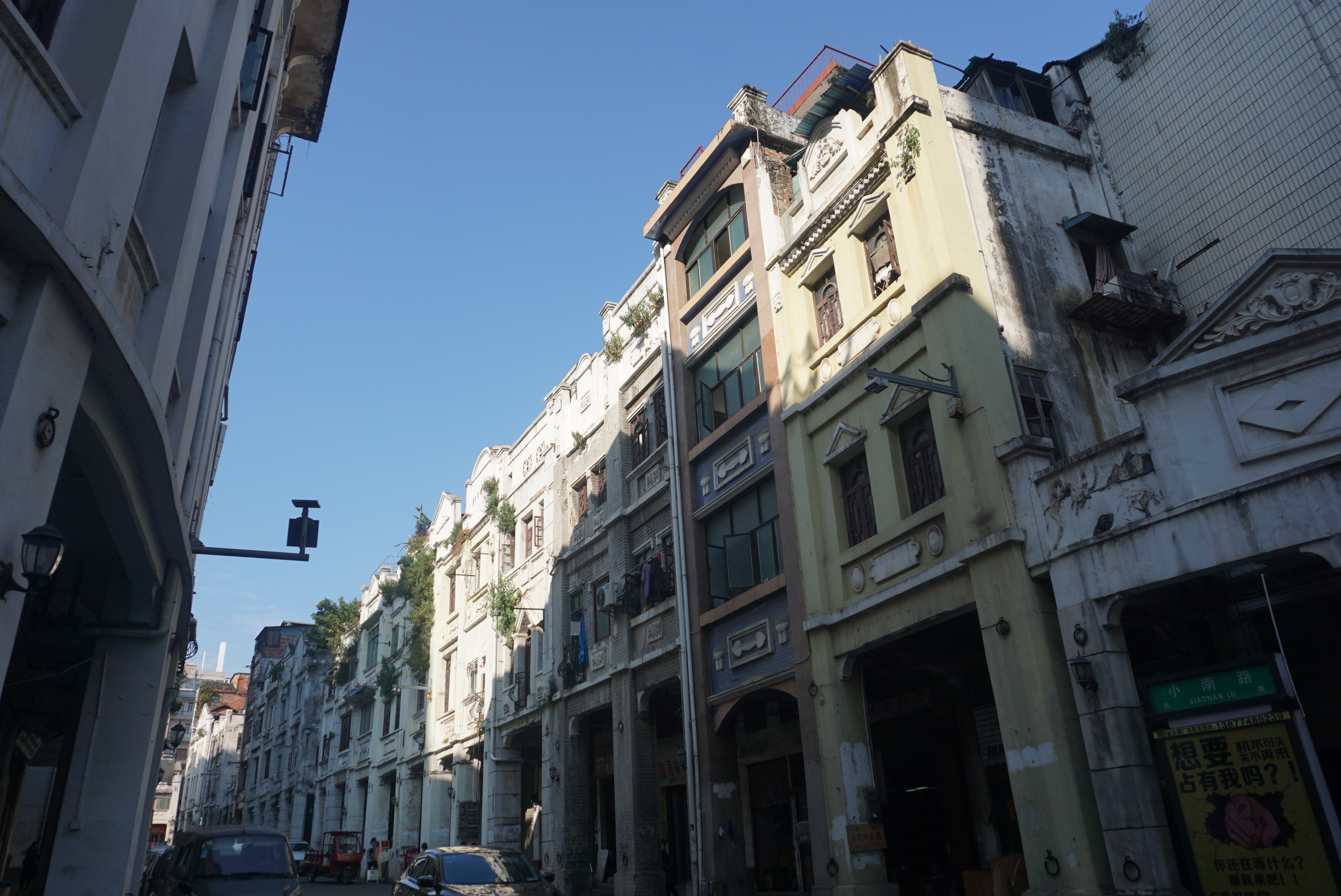 Chinese Verandas Town, in Wuzhou, Guangxi Zhuang Autonomous Region